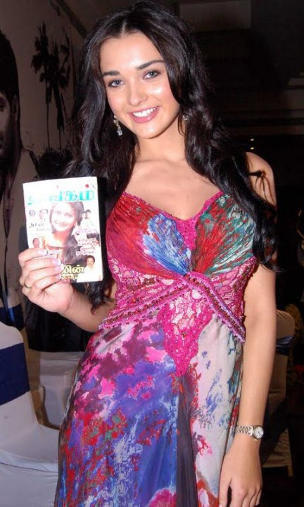 AmmyJackson